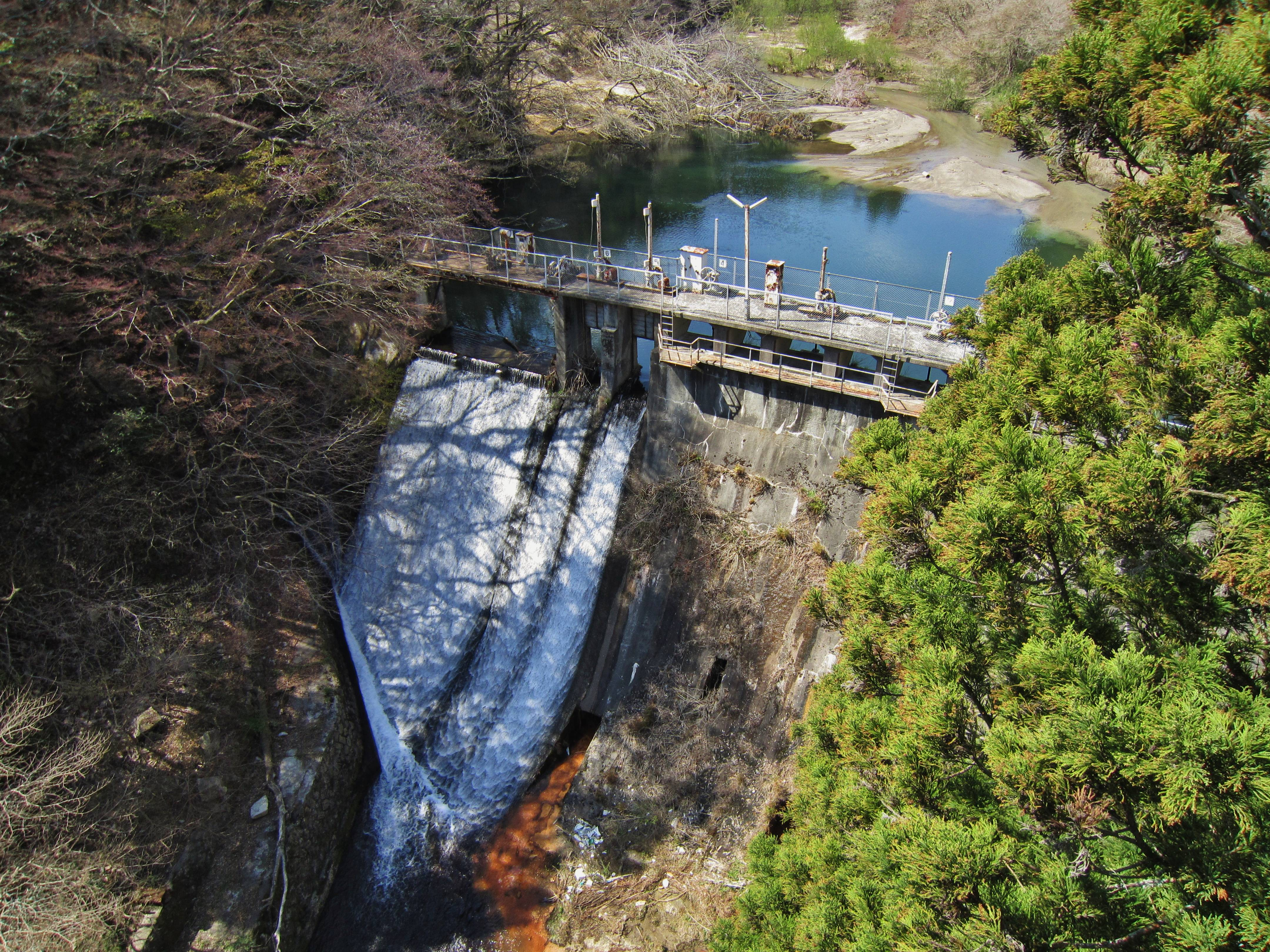 Koyama Dam old dam.